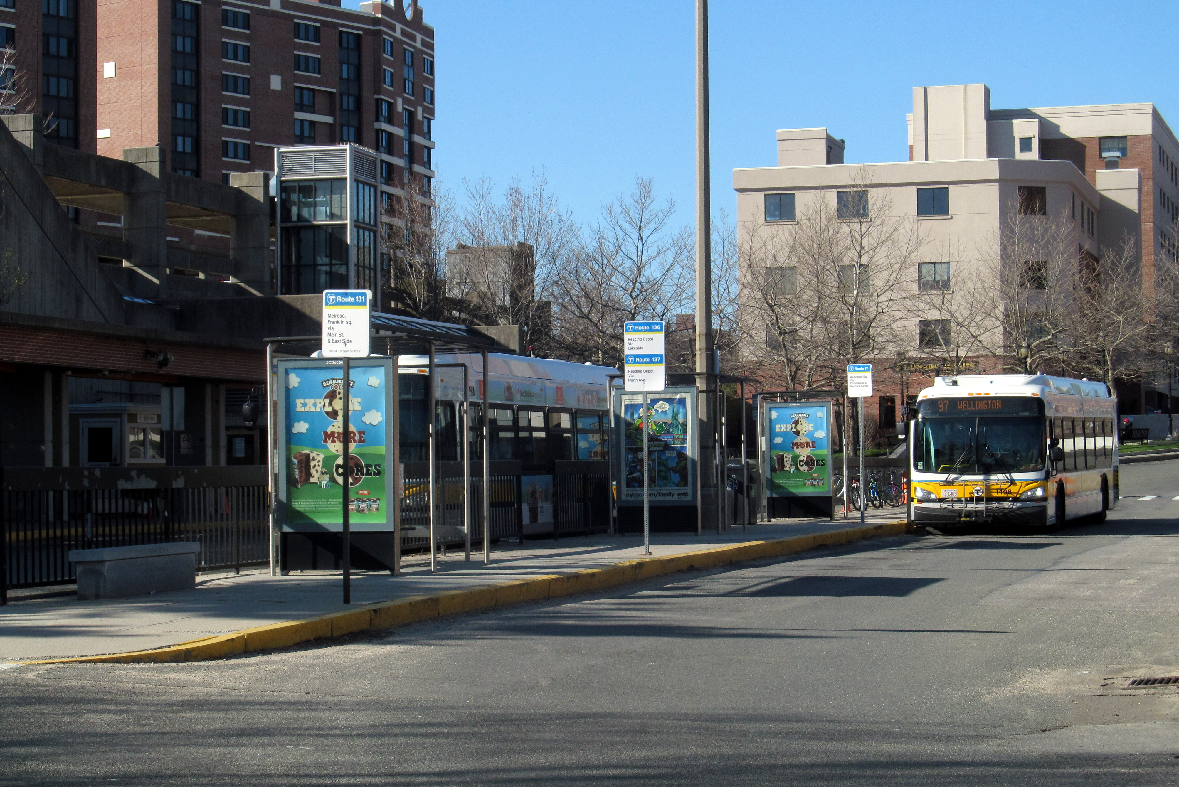 MBTA route 97 bus in the east busway at Malden Center station in April 2017